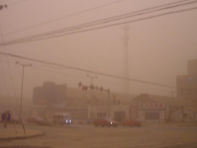 Photograph of the city, Baicheng in the province, Jilin, People's Republic of China, taken by Zev Levin on: April 7, 2001: and published on the NASA site (public domain)